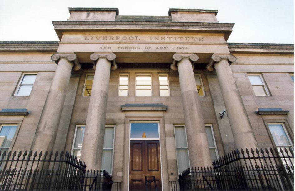 Front entrance of LIPA on Mount Street, Liverpool